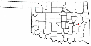 Map dot for Carton Landing, Oklahoma